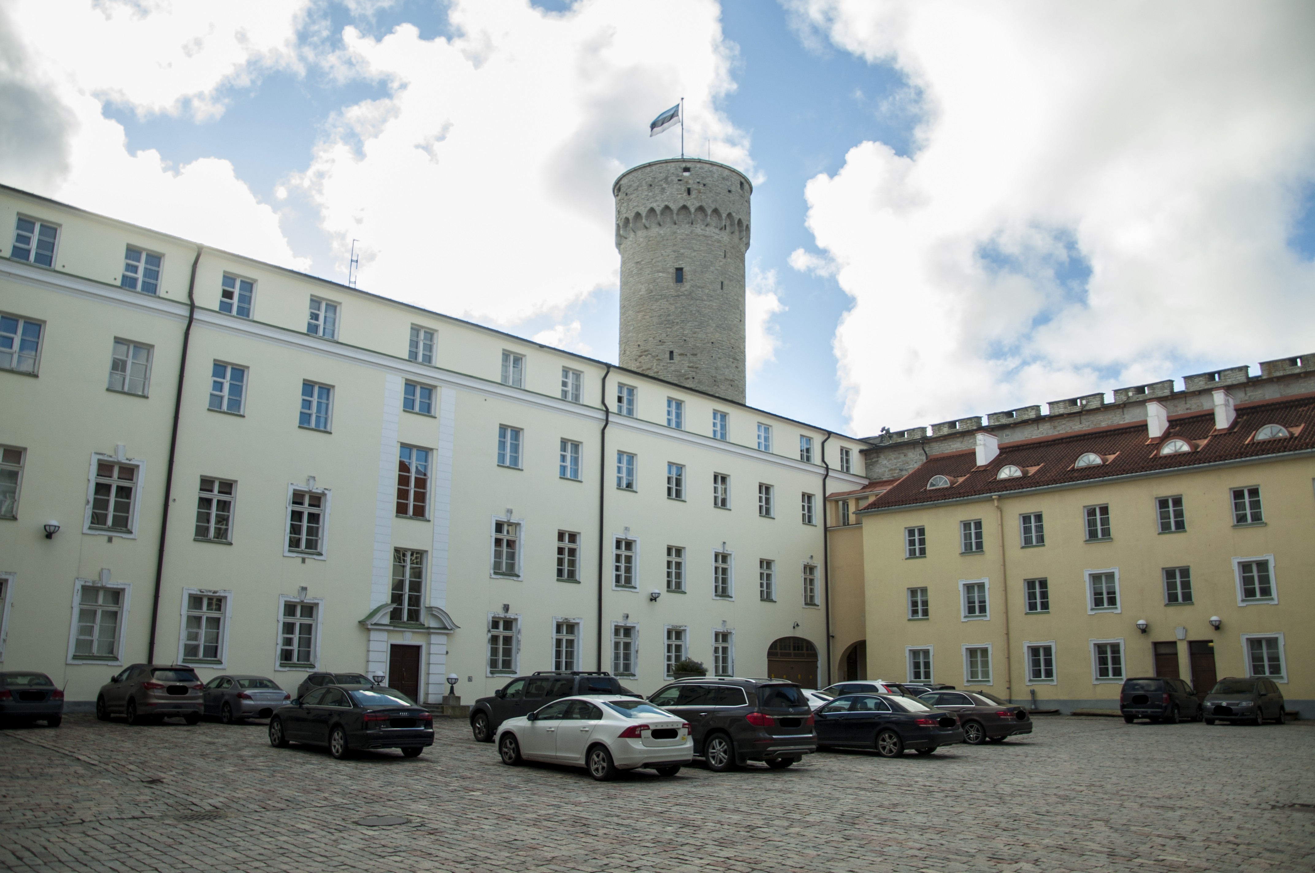 Inside courtyard of Riigikogu, the Estonian parliament, in 2017